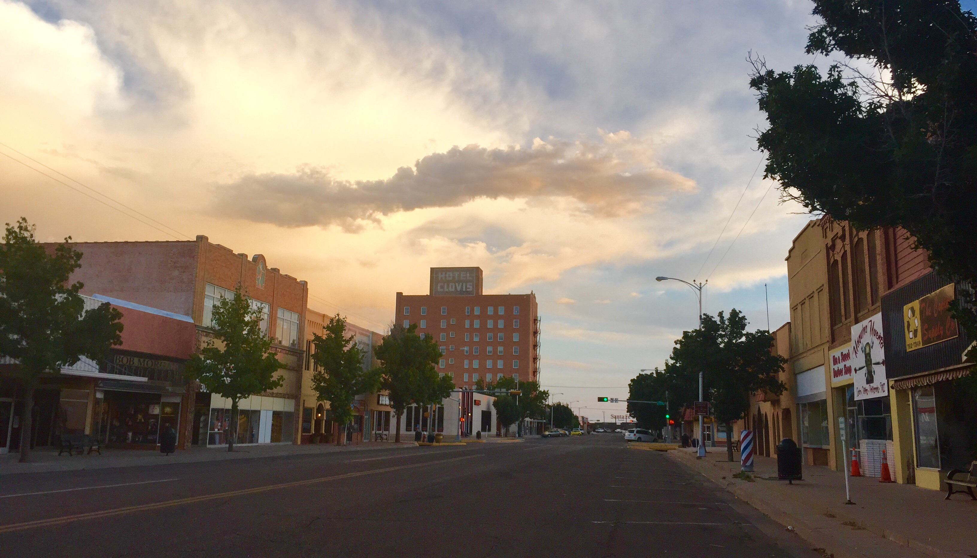 Downtown Clovis, NM, looking south on Main Street.